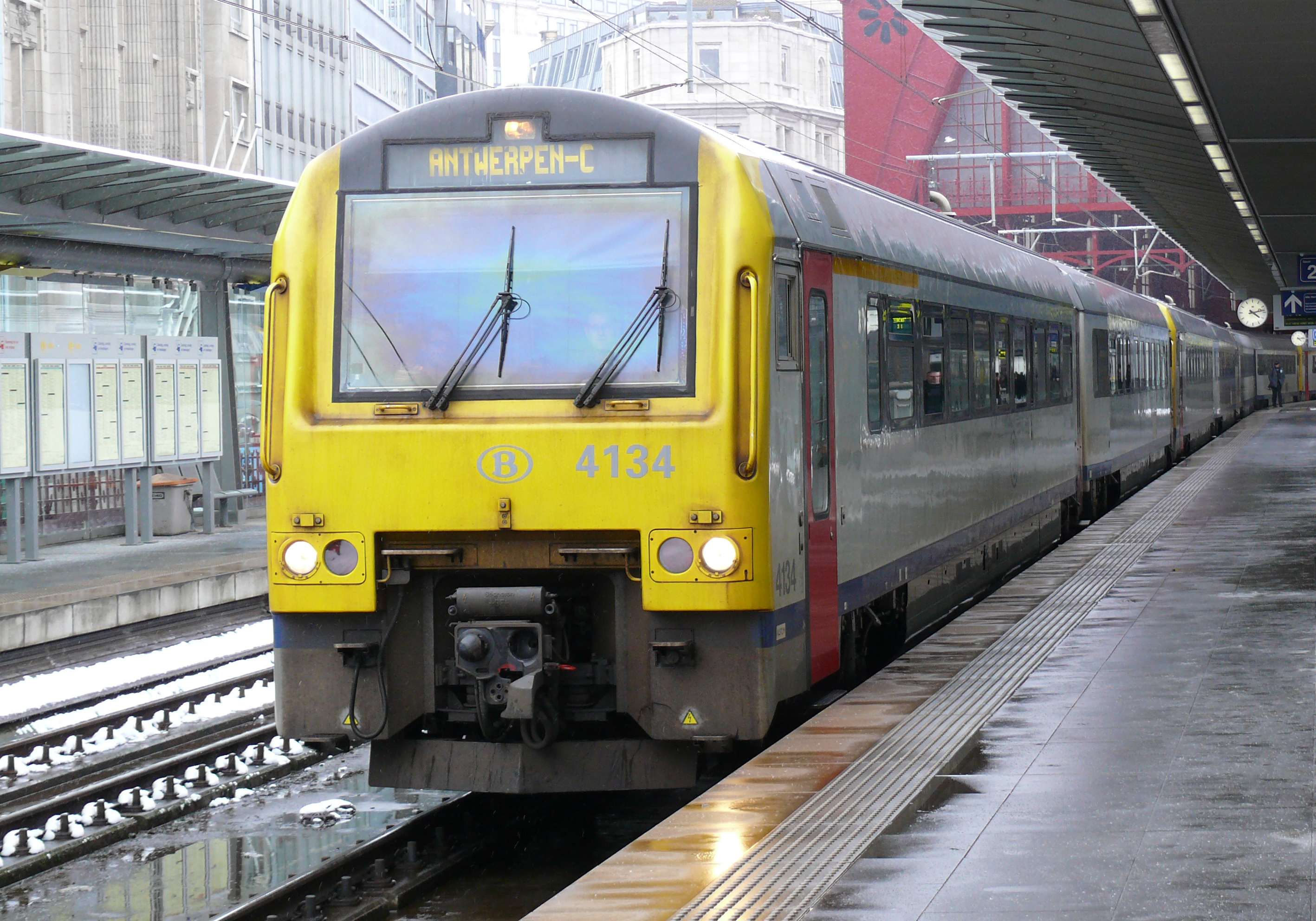 NMBS 4134 (type MW41) on track 2 (level 1) in Antwerp Central Station